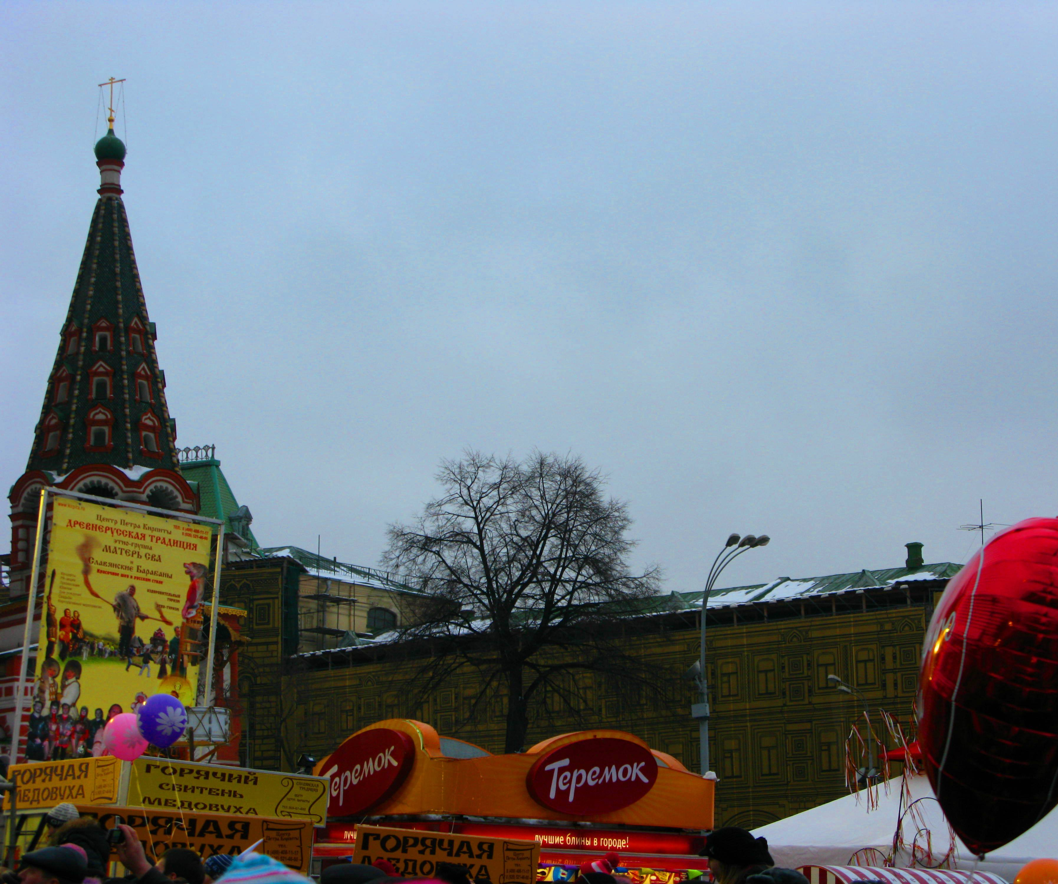 Red square "Maslenytca" Moscow, Russia.